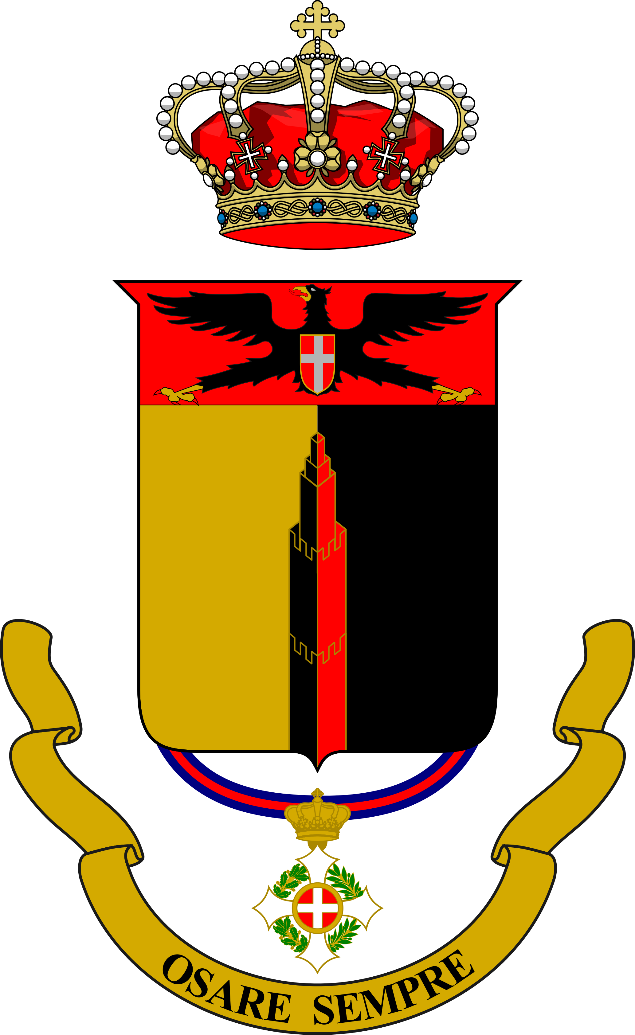 Coat of Arms of the 31st Infantry Regiment "Siena", Royal Italian Army, 1942